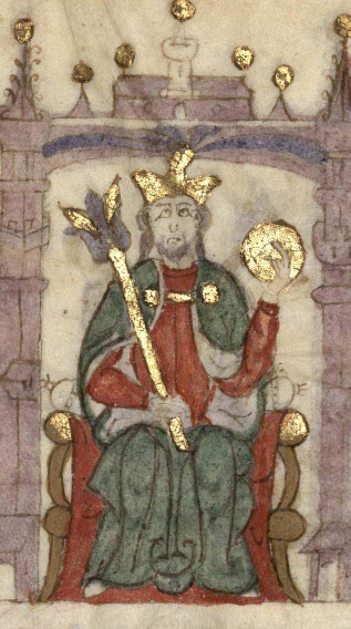 Sancho III of Navarre, the Great